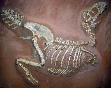 Cast of a Tarbosaurus bataar skeleton on exhibition in Münster, Germany, at the Westphalian Museum of Natural History (original specimen number PIN 553-1, preserved at the Paleontological Institute, Russian Academy of Sciences, holotype of Gorgosaurus lancinator Maleev, 1955). An identical cast is on exhibition at the Galerie de paléontologie et d'anatomie comparée in Paris, France.